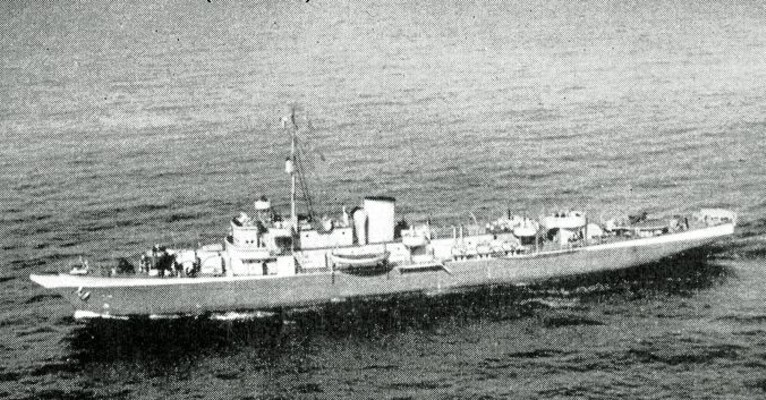 USS Mayflower refitted for World War II with a dramatically altered appearance as a US Coast Guard gunboat